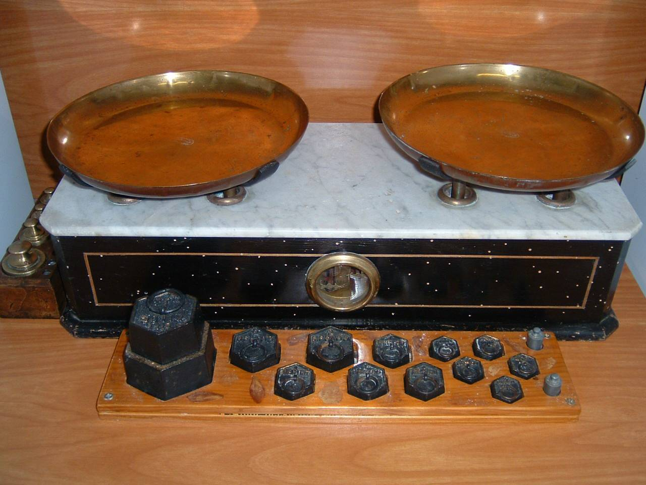 Balance Roberval